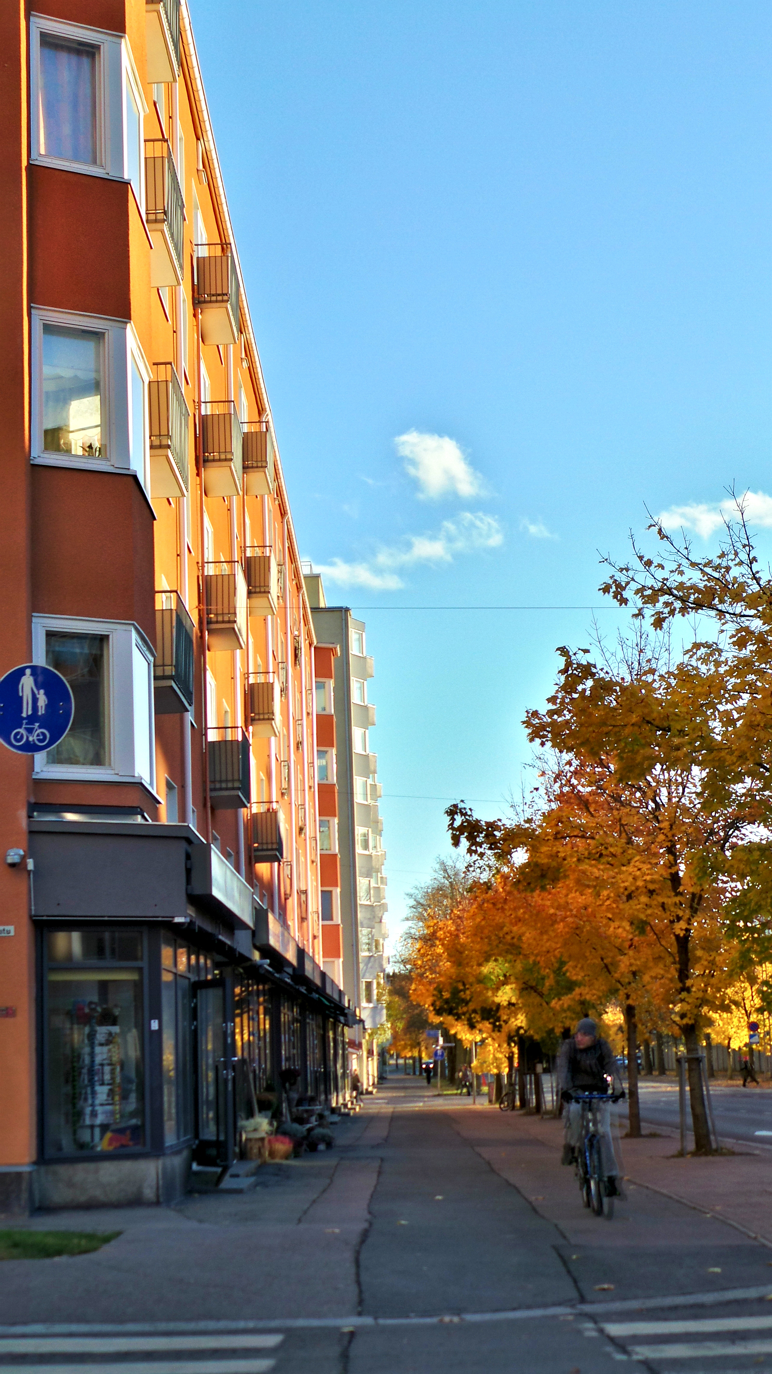 Buildings along Kalevan puistotie